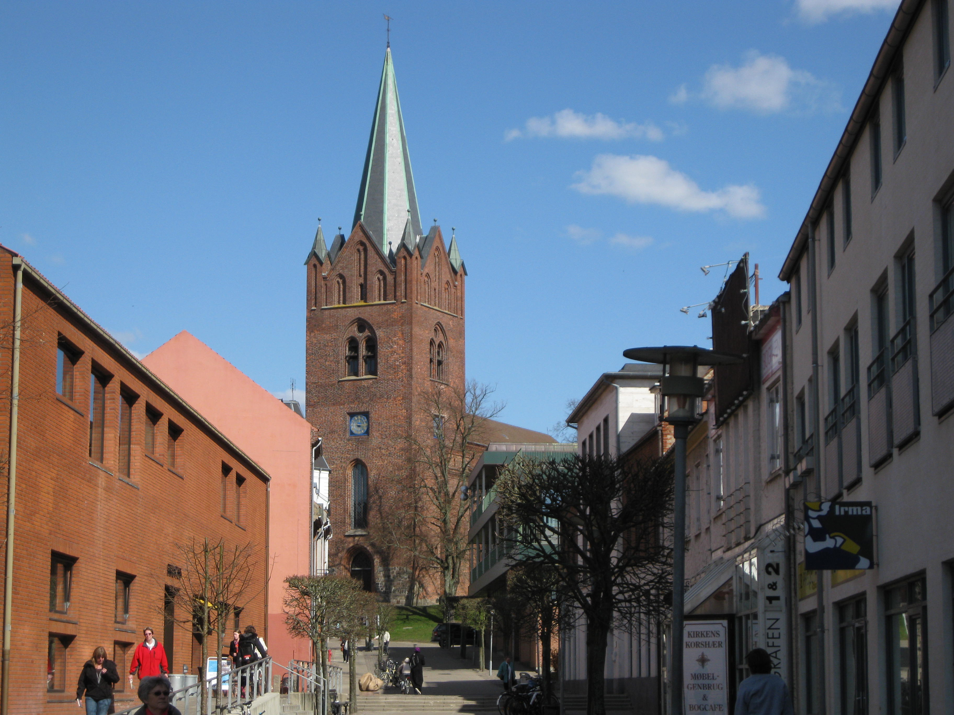 View from the street "Stenstuegade" at the church "Sankt Mikkels Kirke" in Slagelse. The town is located in West Zealand, Denmark.